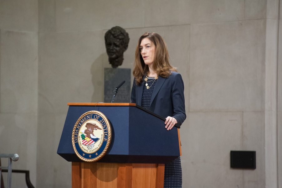 Associate Attorney General Rachel Brand delivers the opening remarks to her summit on human trafficking, discussing the Department of Justice’s dedication to helping victims and combating this “modern-day slavery”